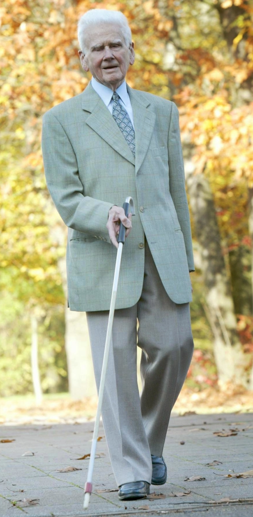 Hans-Eugen Schulze